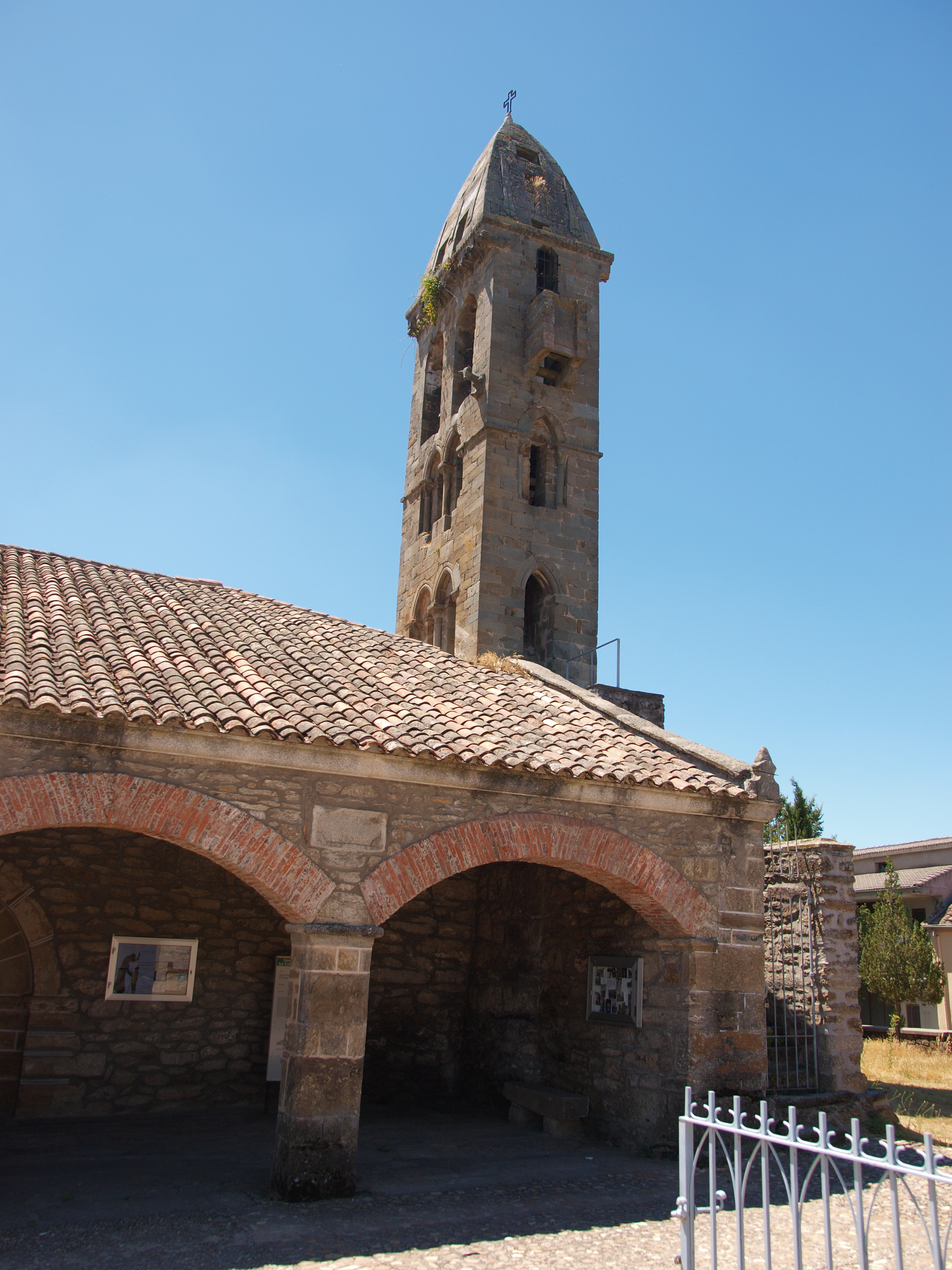 The tower of the Asuncion church, in the spanish town of Mombuey (province of Zamora)